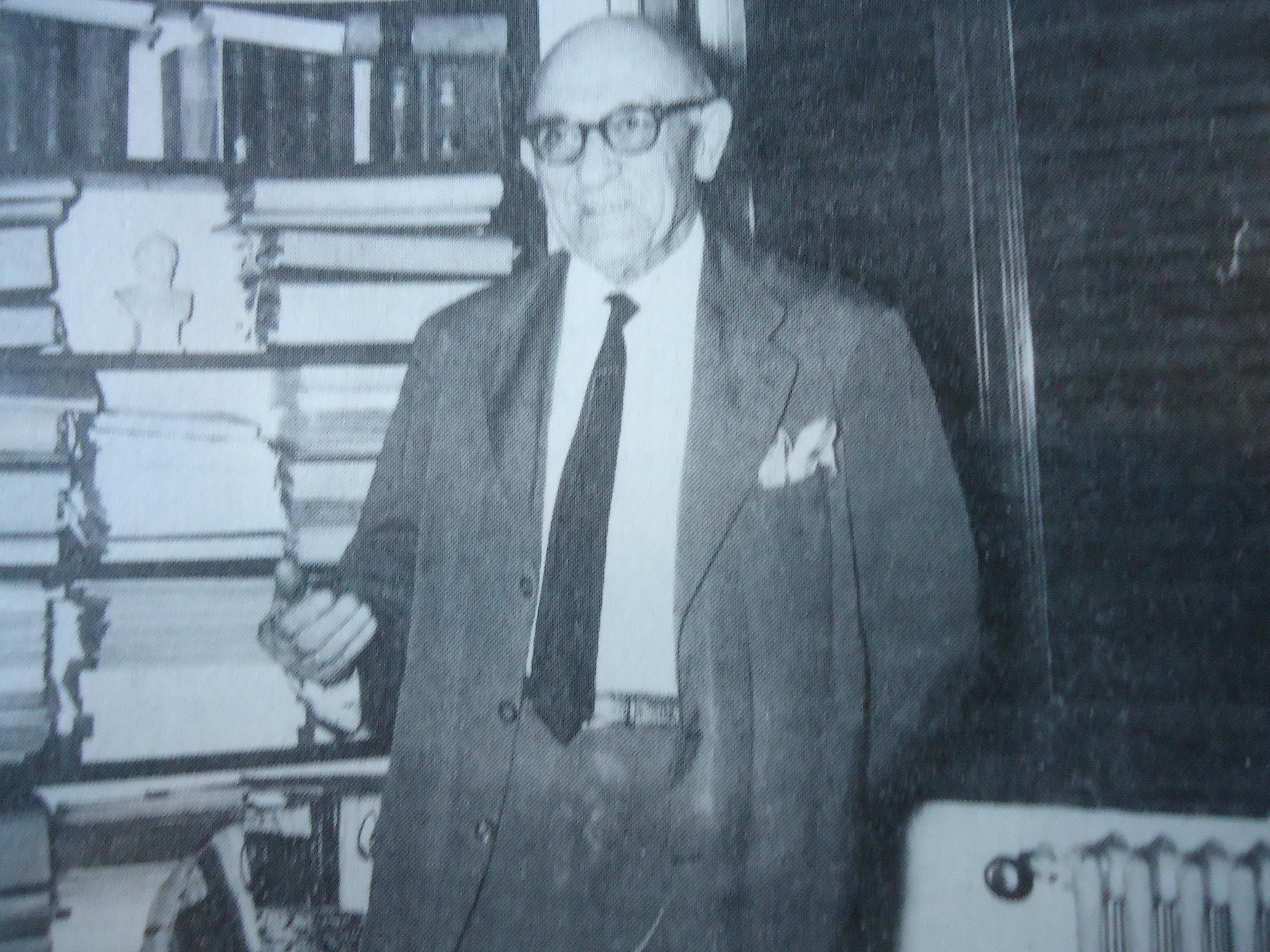 Nikos Kitsikis, Greek Civil engineer